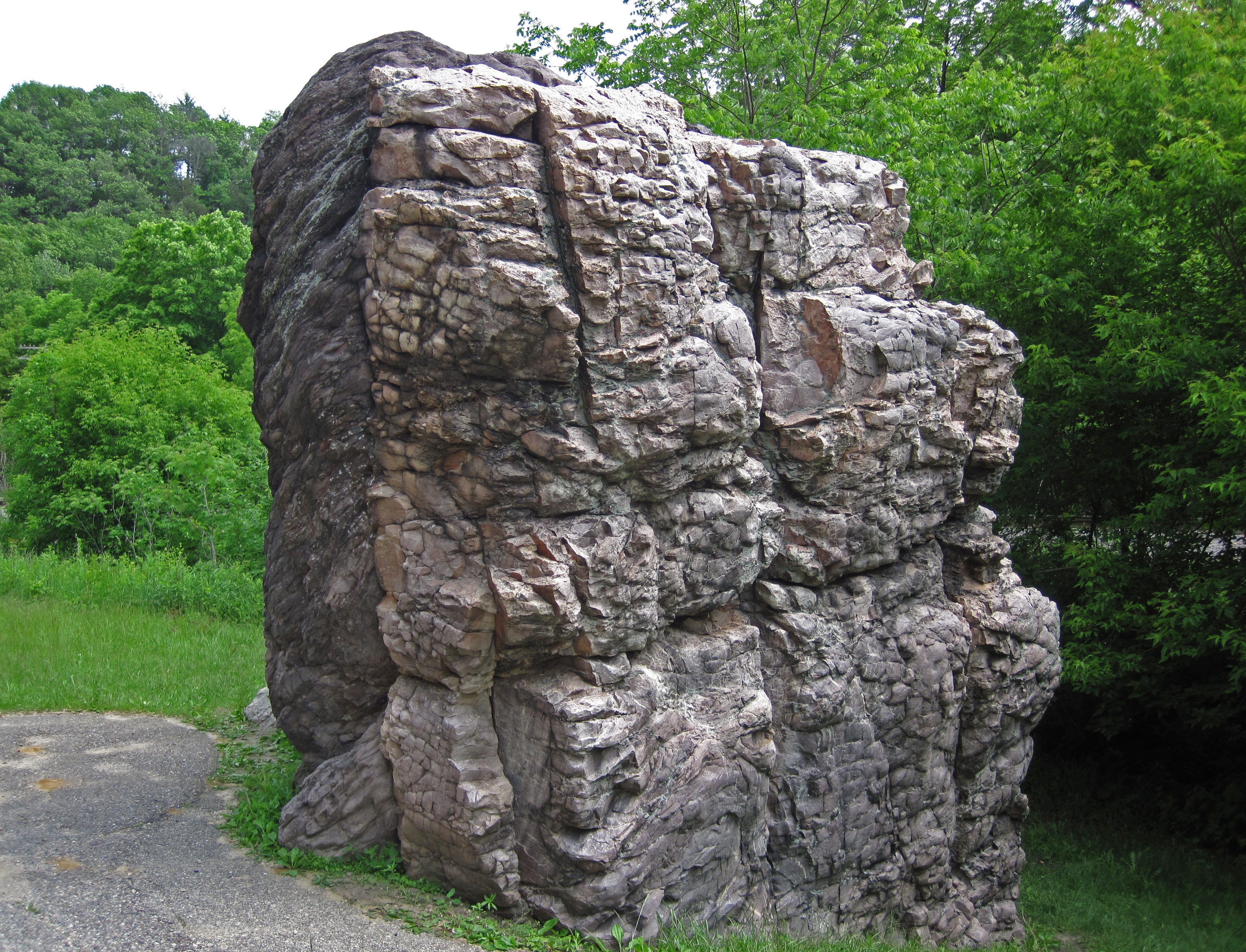 Quartzite & slate in the Precambrian of Wisconsin, USA. The Baraboo Ranges of southern Wisconsin are dominated by a hard, erosion-resistant Precambrian metamorphic unit called the Baraboo Quartzite. These rocks were originally marine sandstones and have been subjected to metamorphism and structural folding. Original sedimentary structures are preserved, such as cross-bedding and ripple marks. Baraboo Quartzites vary in color from pinkish to dark reddish to grayish. During metamorphism, quartz overgrowths formed over the original quartz sand grains. Long-term, modern weathering can result in original sand grains being released. The large rock shown above is Van Hise Rock, which detached from a natural cliff of Baraboo Quartzite outcrop to the left (the latter has since been modified by road construction). The pinkish areas are quartzite. The dark gray area at left is slate (often referred to as "phyllite" in the literature). Slate/phyllite interbeds (= originally shales) are somewhat common in certain intervals of the Baraboo Quartzite. This unit has economic significance - it has been quarried historically and in modern times. The quartzite is broken down into gravel-sized pieces for use as railroad ballast and erosion-control rip-rap. Stratigraphy: Baraboo Quartzite, upper Paleoproterozoic, ~1.7 Ga Locality: Van Hise Rock - large, cliff-detached block on the eastern side of Rt. 136, just north of the town of Rock Springs, North Range of the Baraboo Ranges, north-central Sauk County, southern Wisconsin, USA (43° 29’ 20.70” North, 89° 54’ 56.57” West)